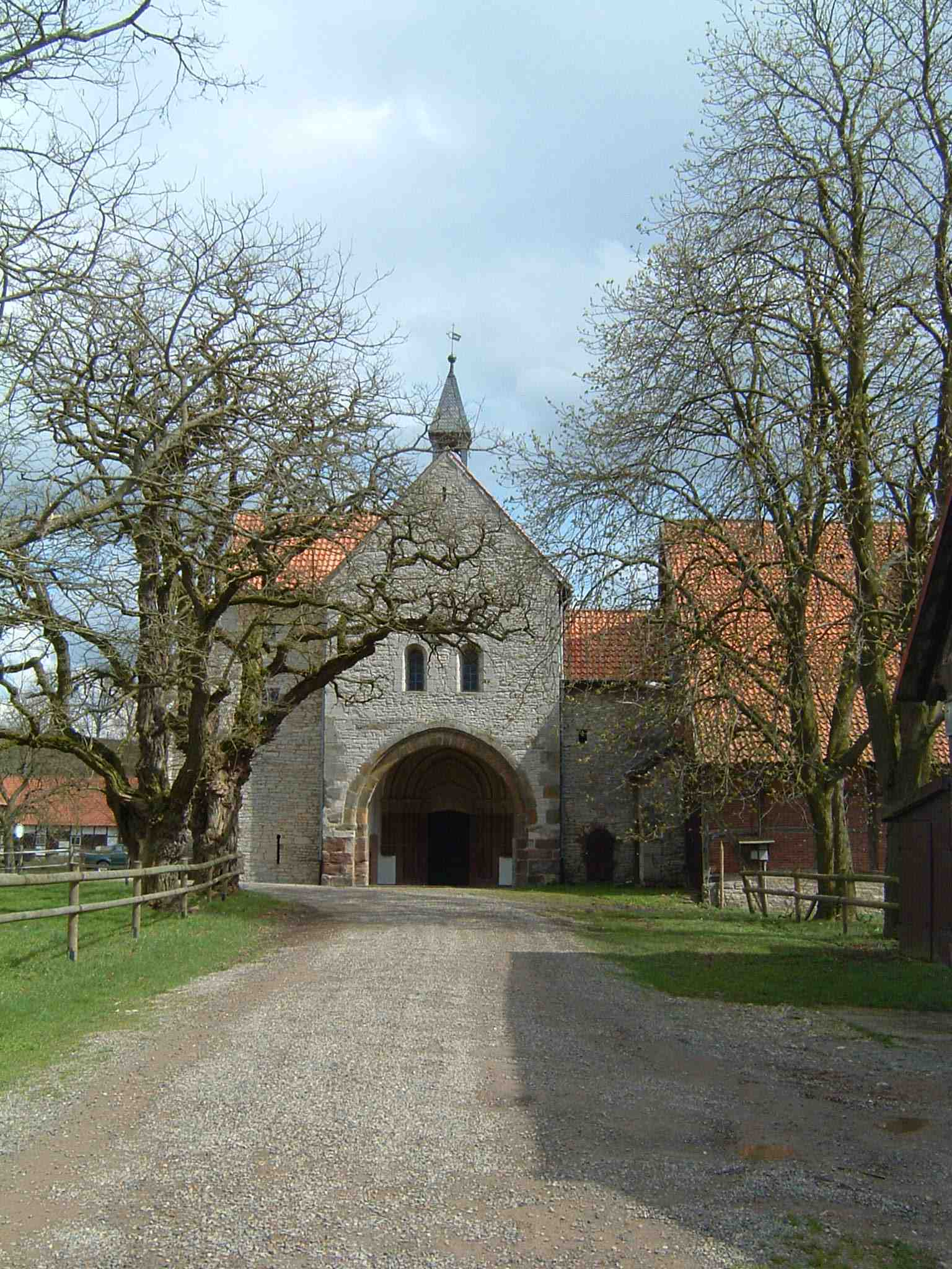 Church of the former Convent Wiebrechtshausen near Northeim, Germany